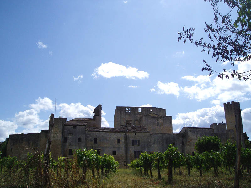 Larressingle. A Village in Gers (France). A UNESCO World Heritage Site.